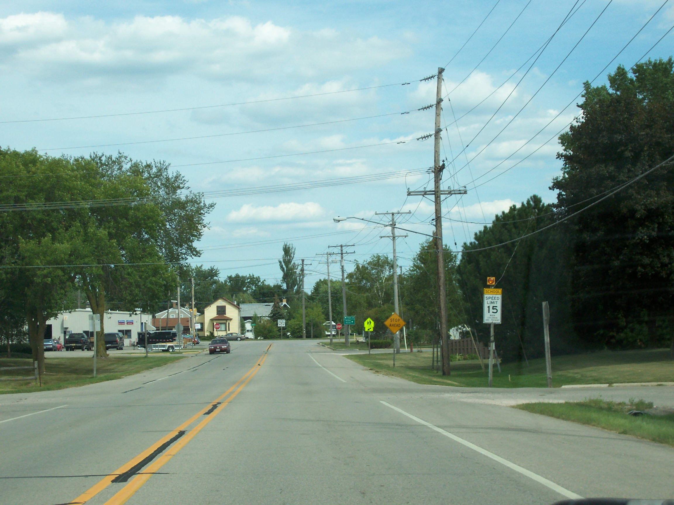 Picture of the east terminus of Highway 114 (Wisconsin), taken on eastbound WIS-114 in Hilbert, Wisconsin, USA, taken August 22, 2006 by User:Royalbroil Category:Images of Wisconsin highways